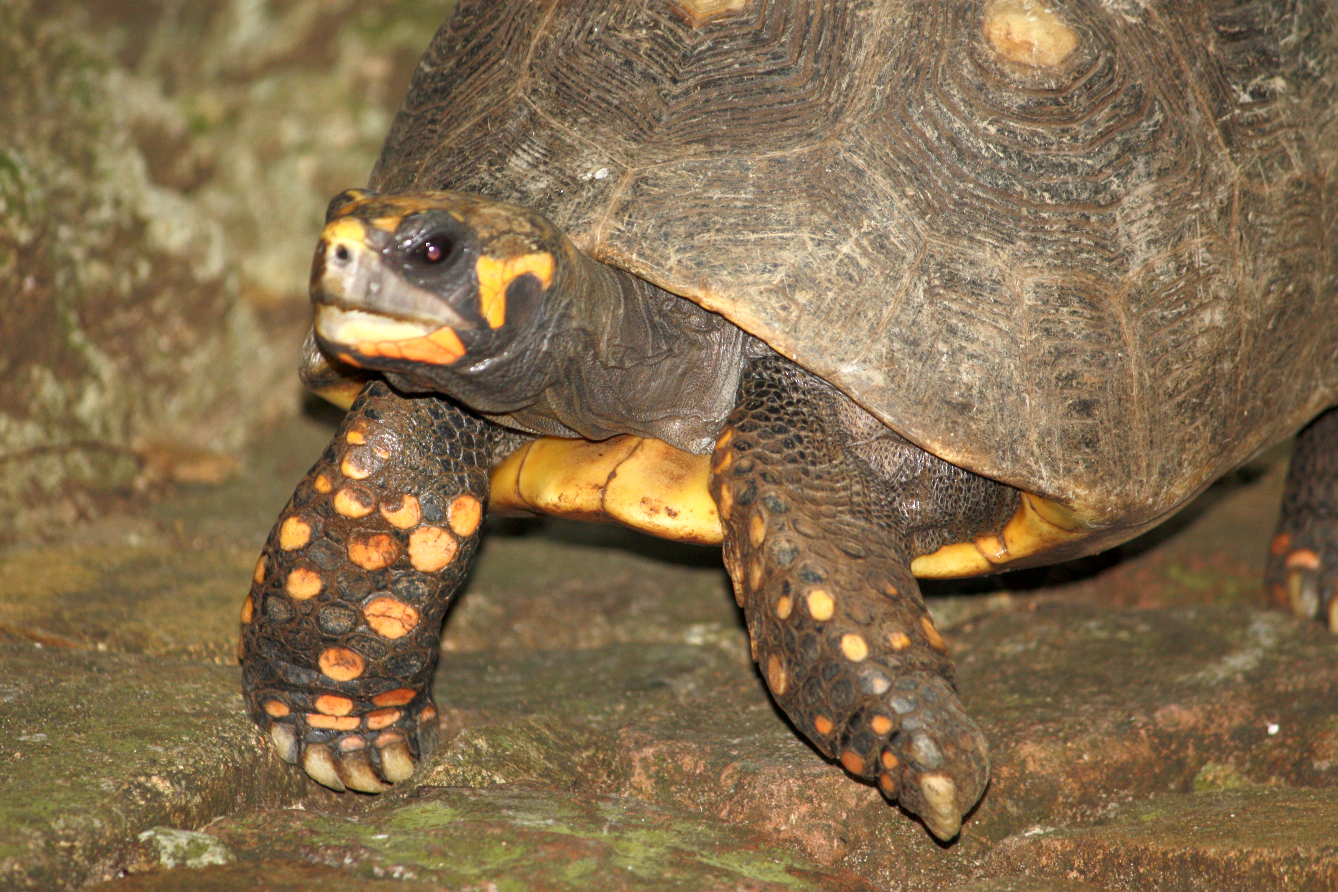 Red-footed Tortoise (Geochelone carbonaria). In captivity in Barbados Wildlife Reserve.